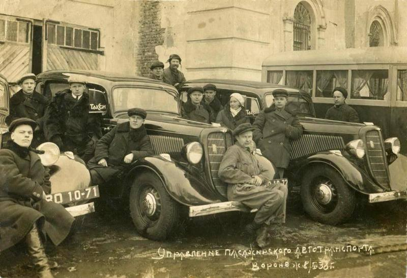 Voronezh taxis in 1938.